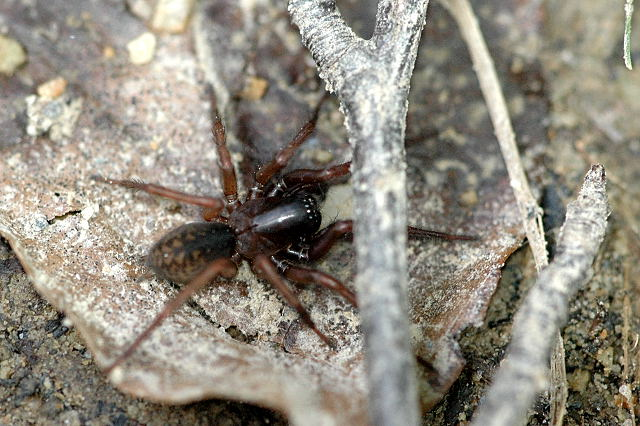 female Cryphoeca silvicola from Commanster, Belgian High Ardennes .